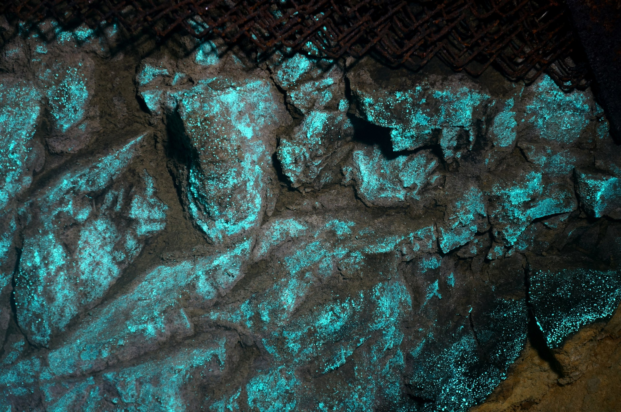 Schröckingerite - uranium mineral salt in UV-light